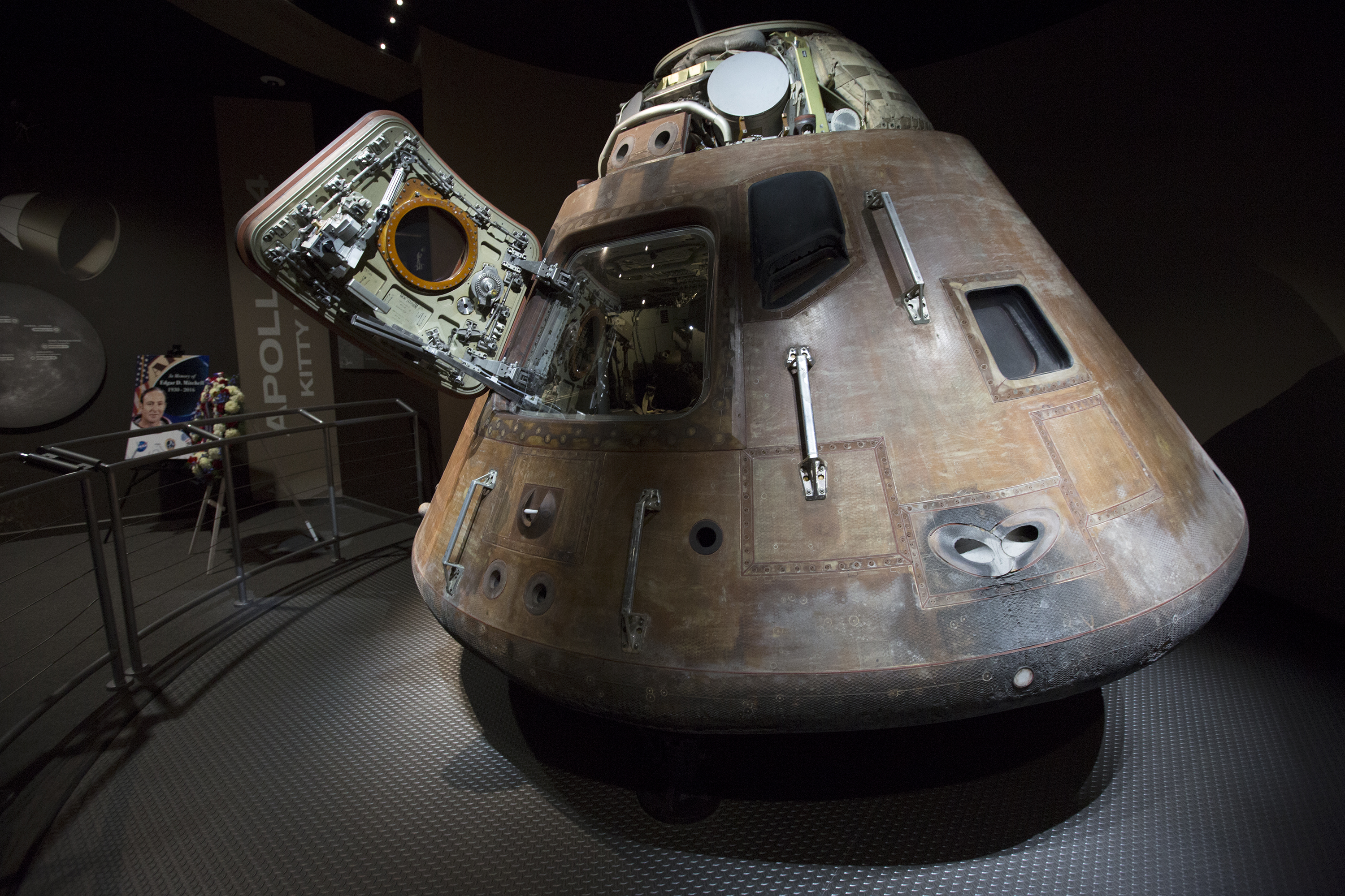 In the Apollo Saturn V Center at NASA's Kennedy Space Center in Florida, a memorial wreath, seen in the background, was placed next to the Apollo 14 command module exhibit following a ceremony to honor the memory of former NASA astronaut Edgar Mitchell. One of 12 humans to walk on the moon, Mitchell died Feb. 4, 2016. Mitchell was Apollo 14's lunar module pilot who landed in the moon's Fra Mauro highlands on Feb. 5, 1971 with mission commander Alan Shepard while command module pilot Stuart Roosa remained in lunar orbit.